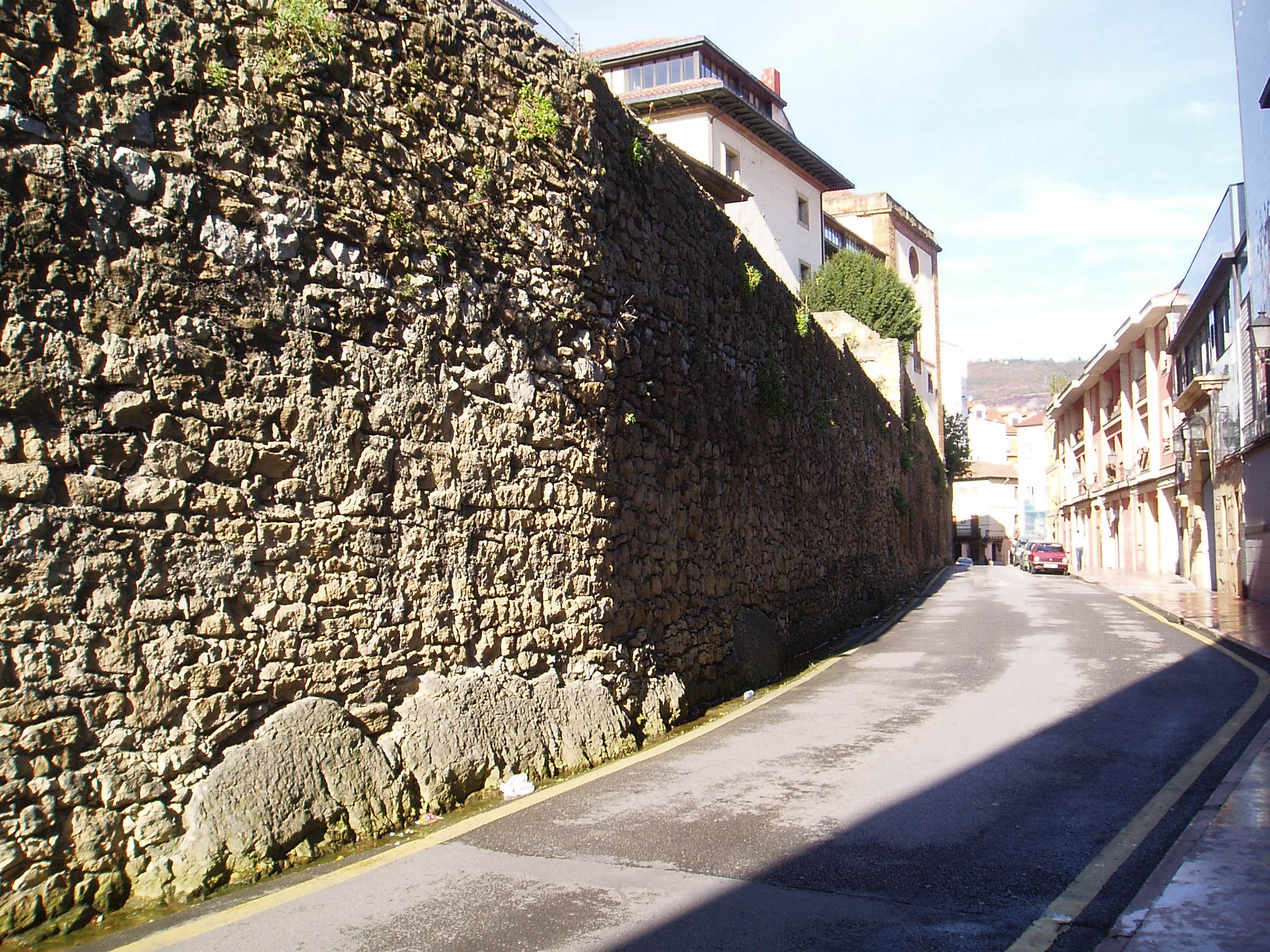 City Wall at Oviedo, Principado de Asturias, Spain